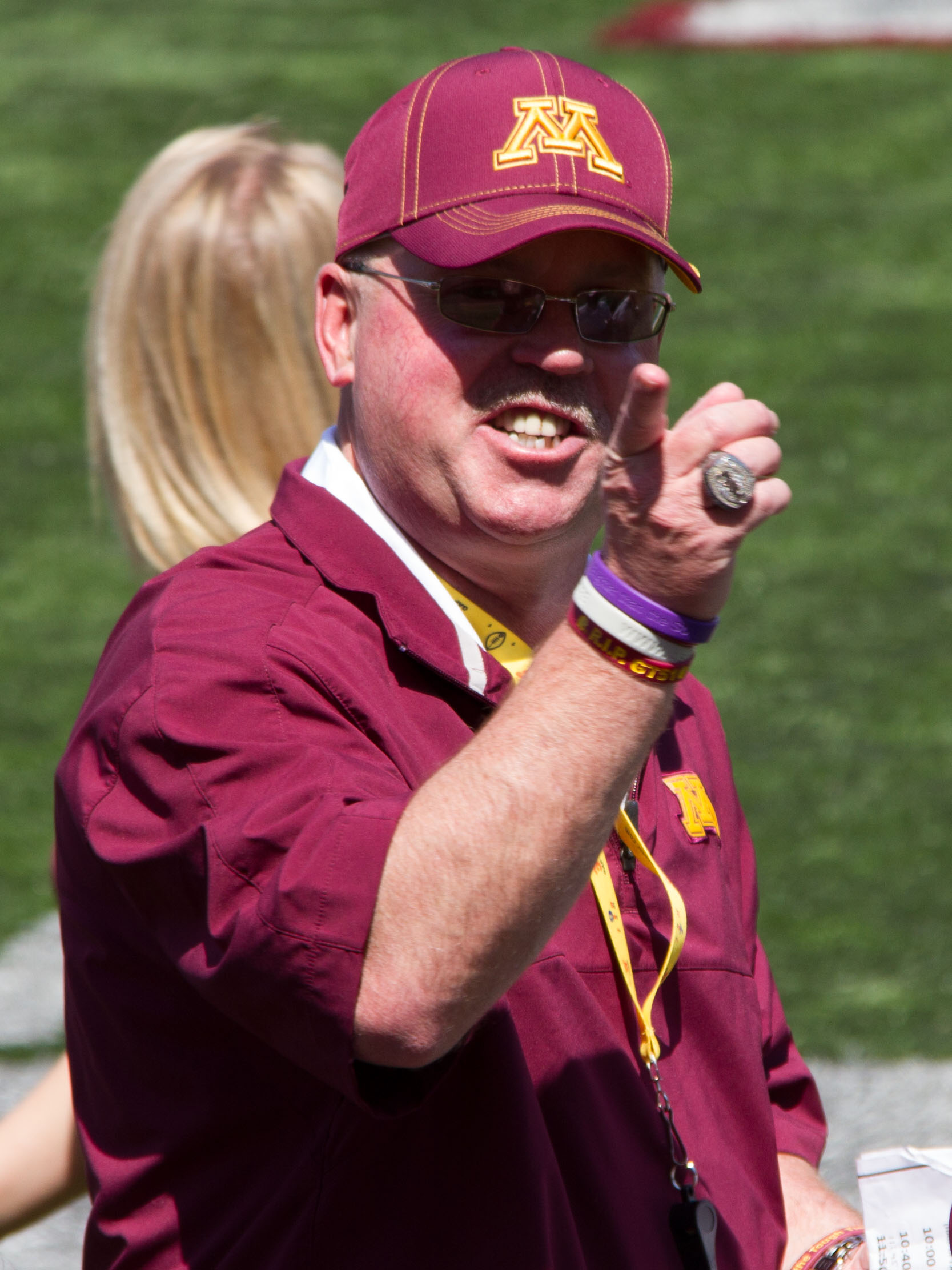 Head Coach Jerry Kill, during the Minnesota Golden Gophers football team's 2013 Spring Game in TCF Bank Stadium, Minneapolis, Minnesota, USA.